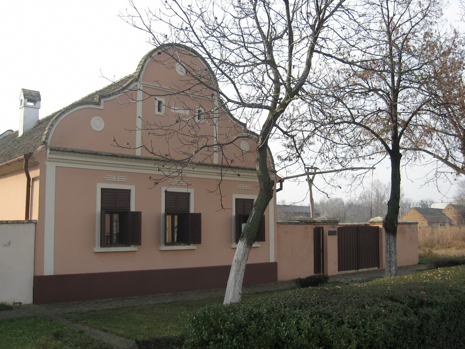 Idvor - Birthhouse of Mihailo Pupin